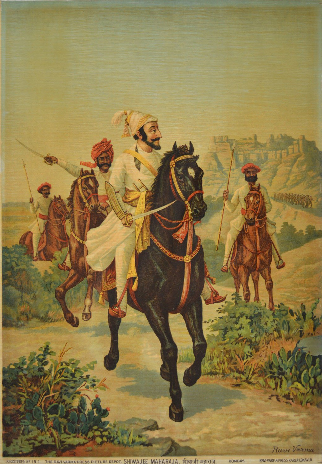 Chhatrapati Shivaji Maharaj.